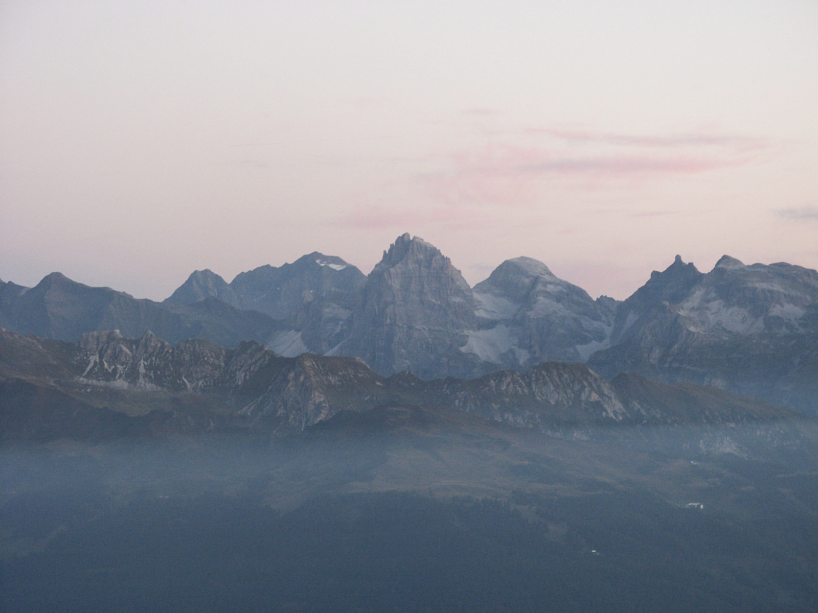 Tribulaun at dawn, South Tyrol, Italy